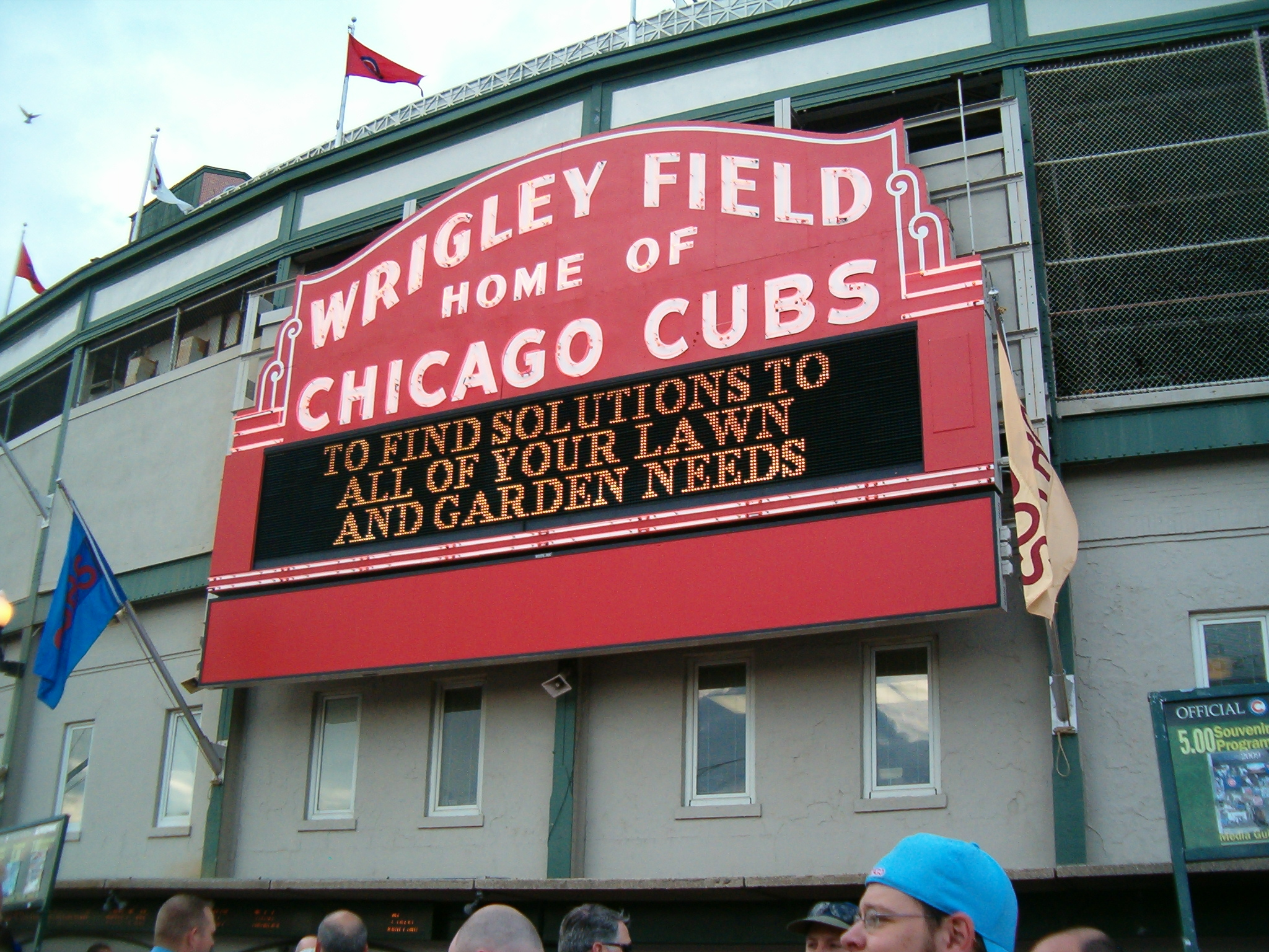 The welcome sign at Wrigley Field.